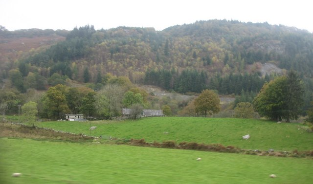 Autumn colours in the forest around Rhiw-goch Quarry